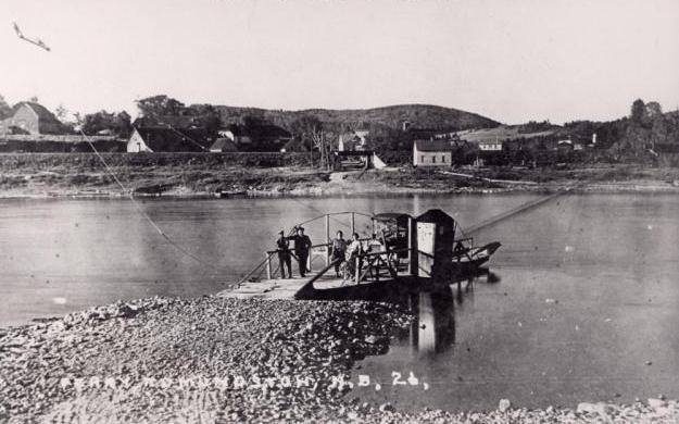 Prior to the construction of the original bridge, a hand-pulled ferry enabled people to cross between Madawaska and Edmundston Other information This image depicts the Madawaska ferry, which ceased to operate when the Madawaska bridge opened in 1921.